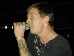 Paul Roberts performing with The Stranglers in Nottingham on 18 December, 2005.